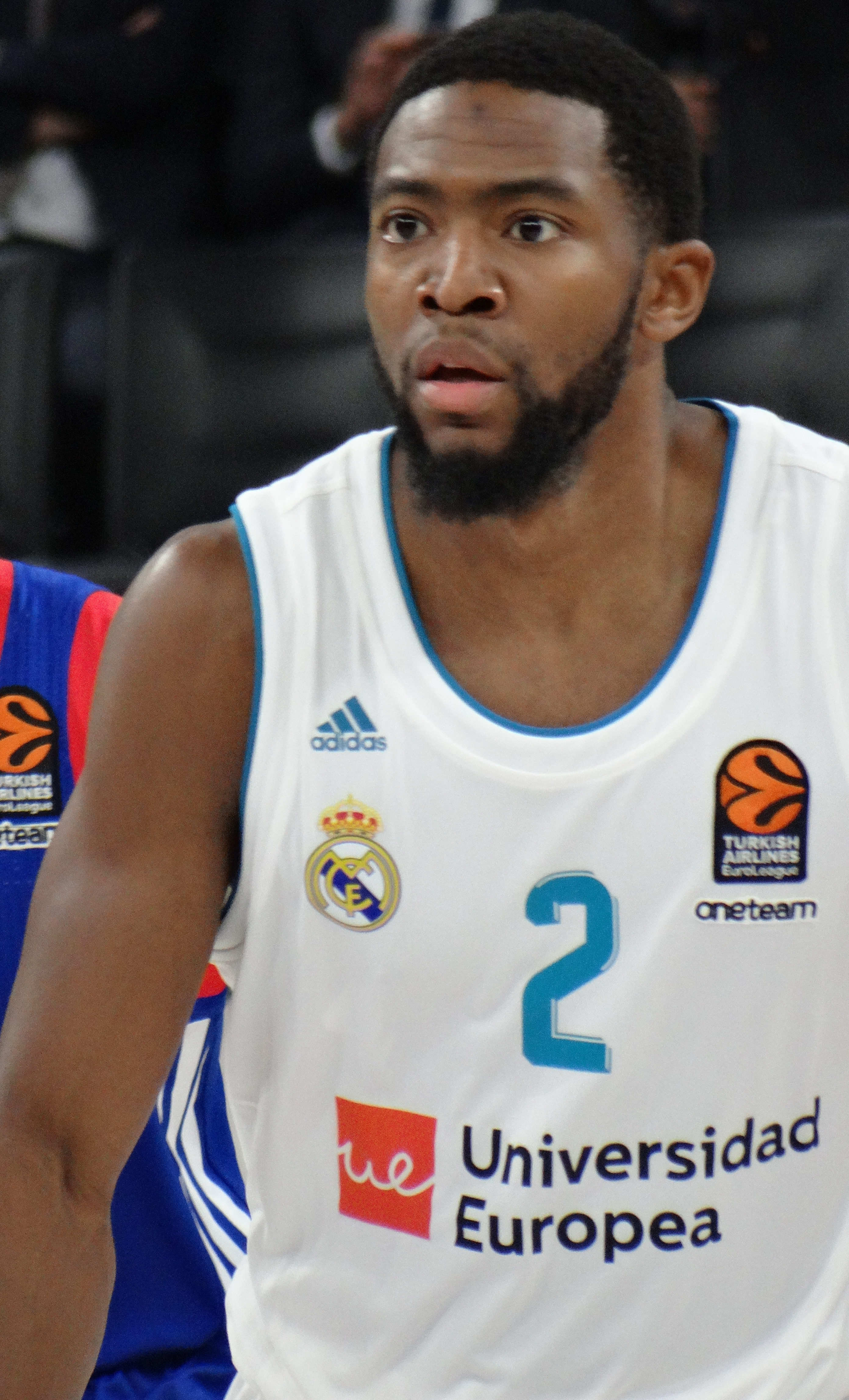 Chasson Randle 2 Real Madrid Baloncesto Euroleague 20171012